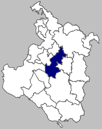 Self-made map of Barilović municipality within Karlovac County.